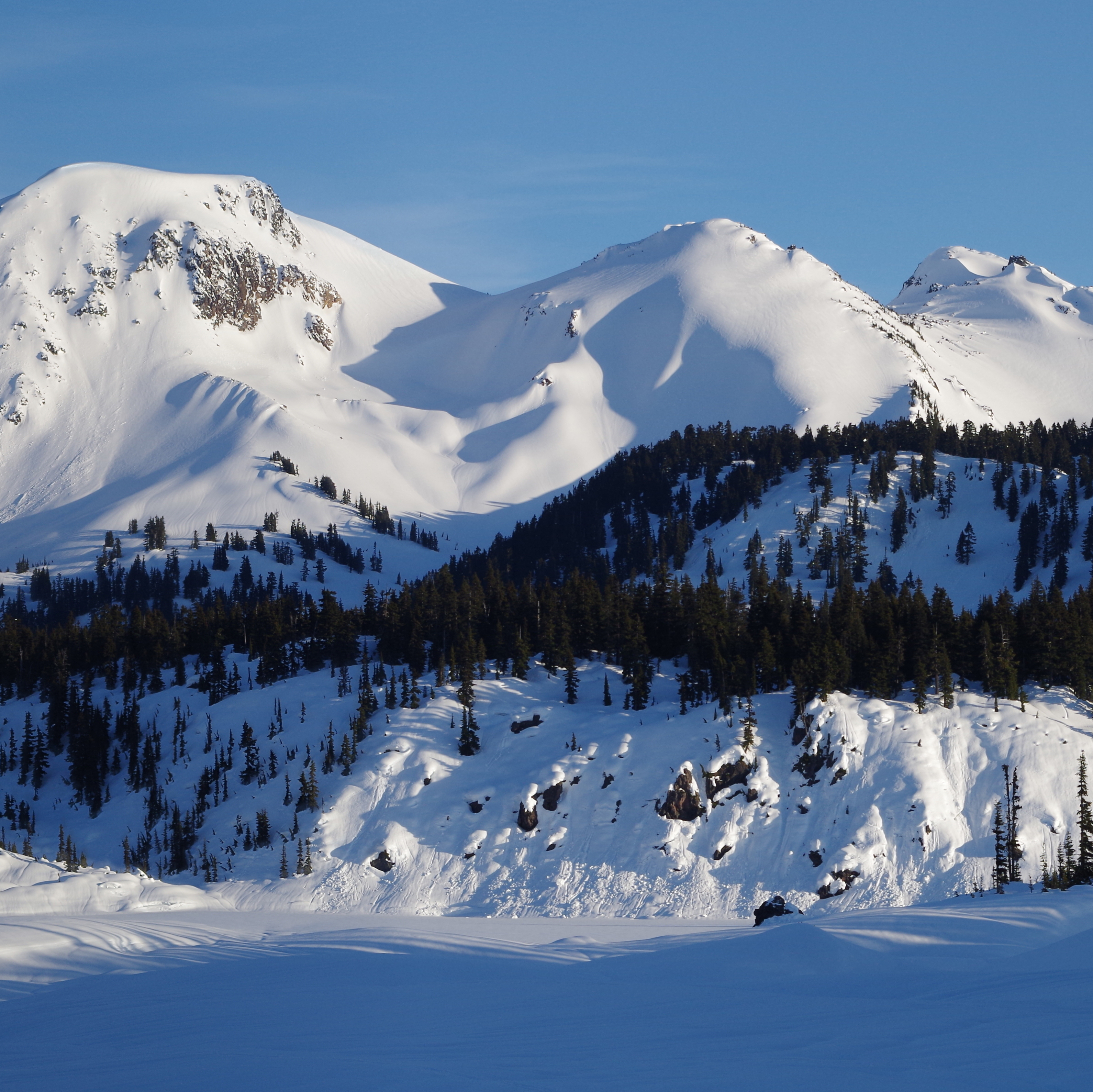 Mount Price, left, and Clinker Peak, center.